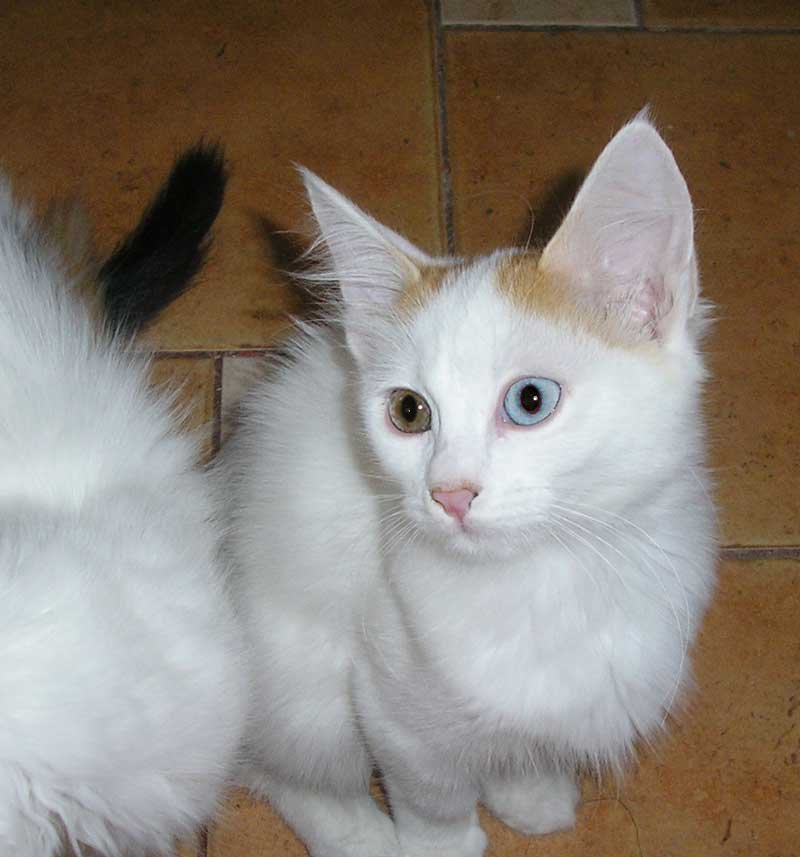 Forrest Turkish Van kitten (5 months)